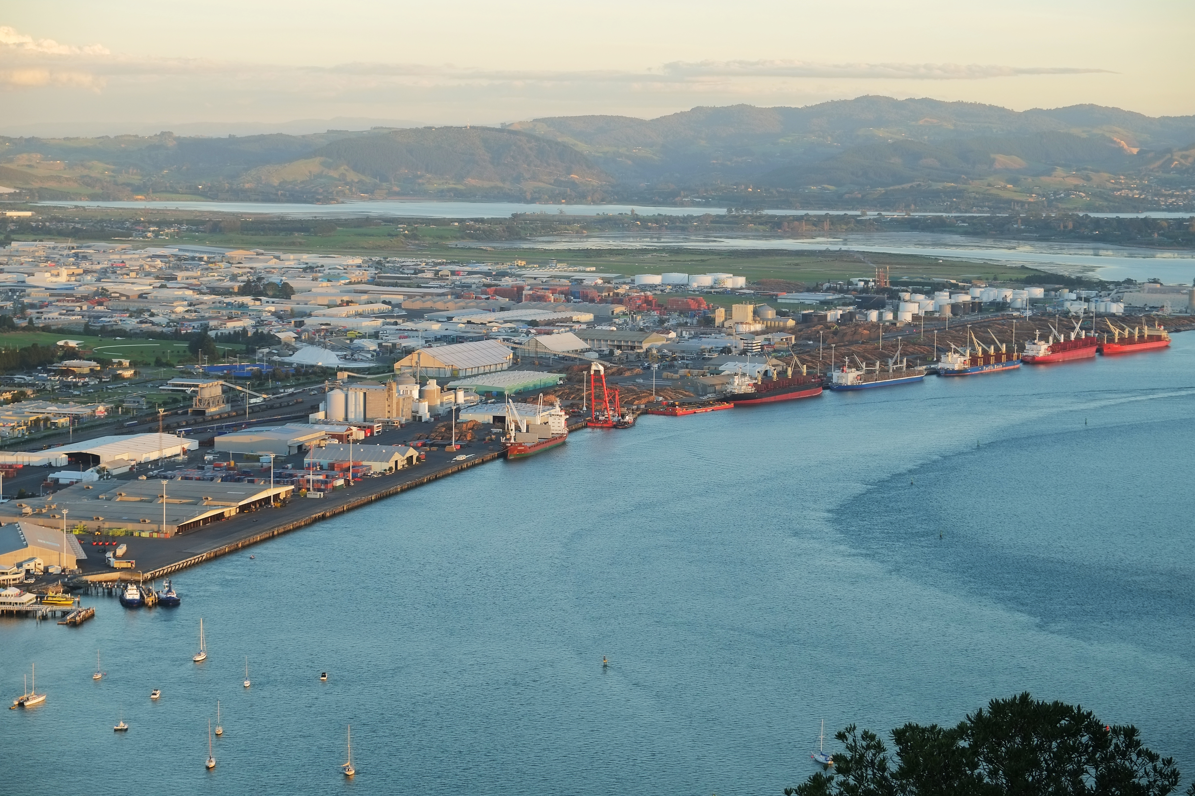 Port of Tauranga at sunset